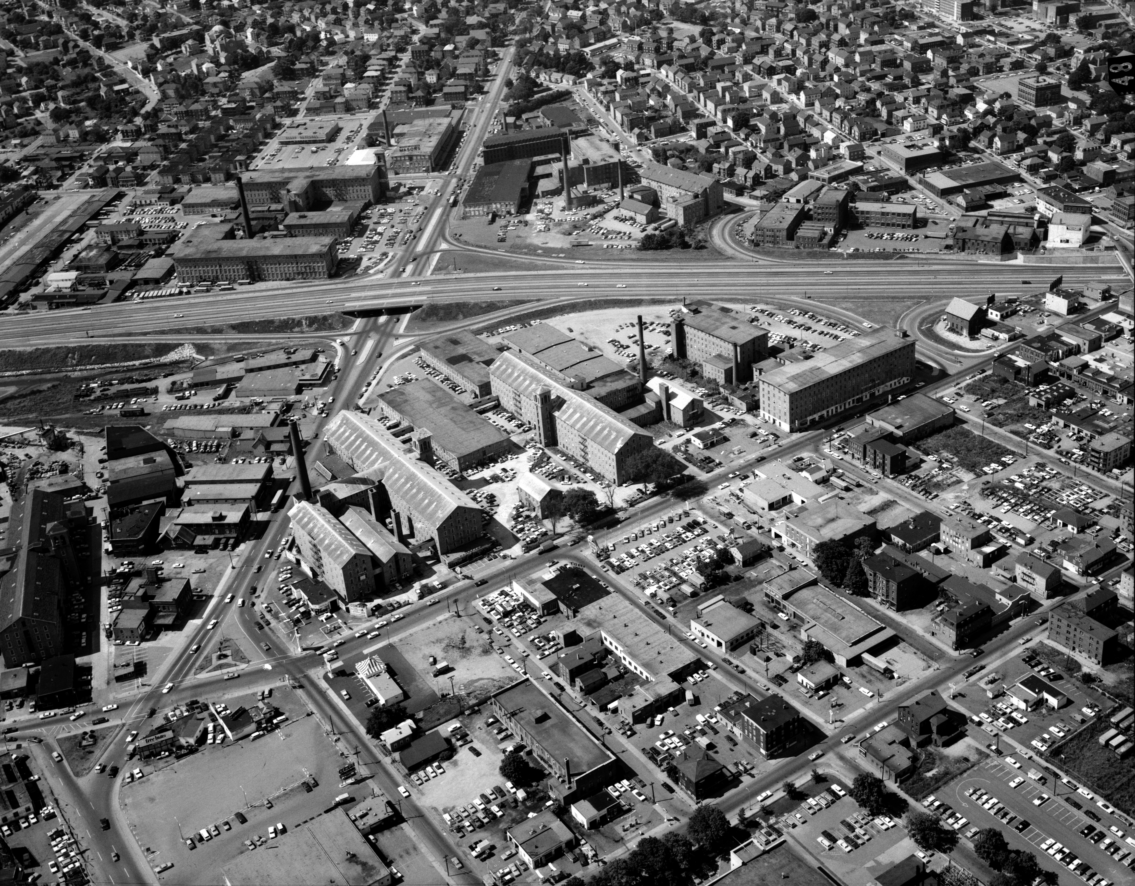 Durfee Mills, Plymouth Avenue & Pleasant Street, Fall River, Bristol County, MA 3. Historic American Buildings Survey Jack E. Boucher, Photographer August 1968 AERIAL VIEW #3, LOOKING SOUTHWEST